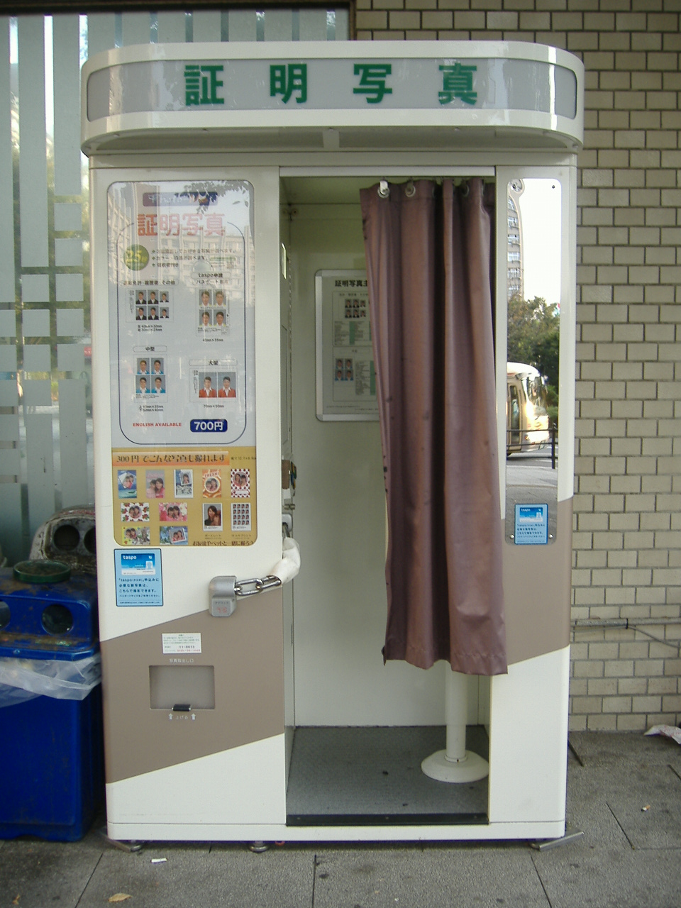 Photo booth